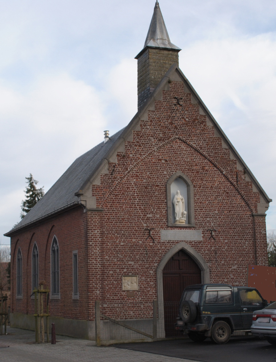 Chapel named "Stevenist Church" built in 1918 at Leerbeek (commune of Gooik, Belgium) to the memory of the local chapter of the anti-Napoleonic Stevenist movement. Nikon D60 f=26mm f/8 at 1/250s ISO 200. Processed using ViewNX 1.0.3 and edited using Adobe Photoshop 4.0.